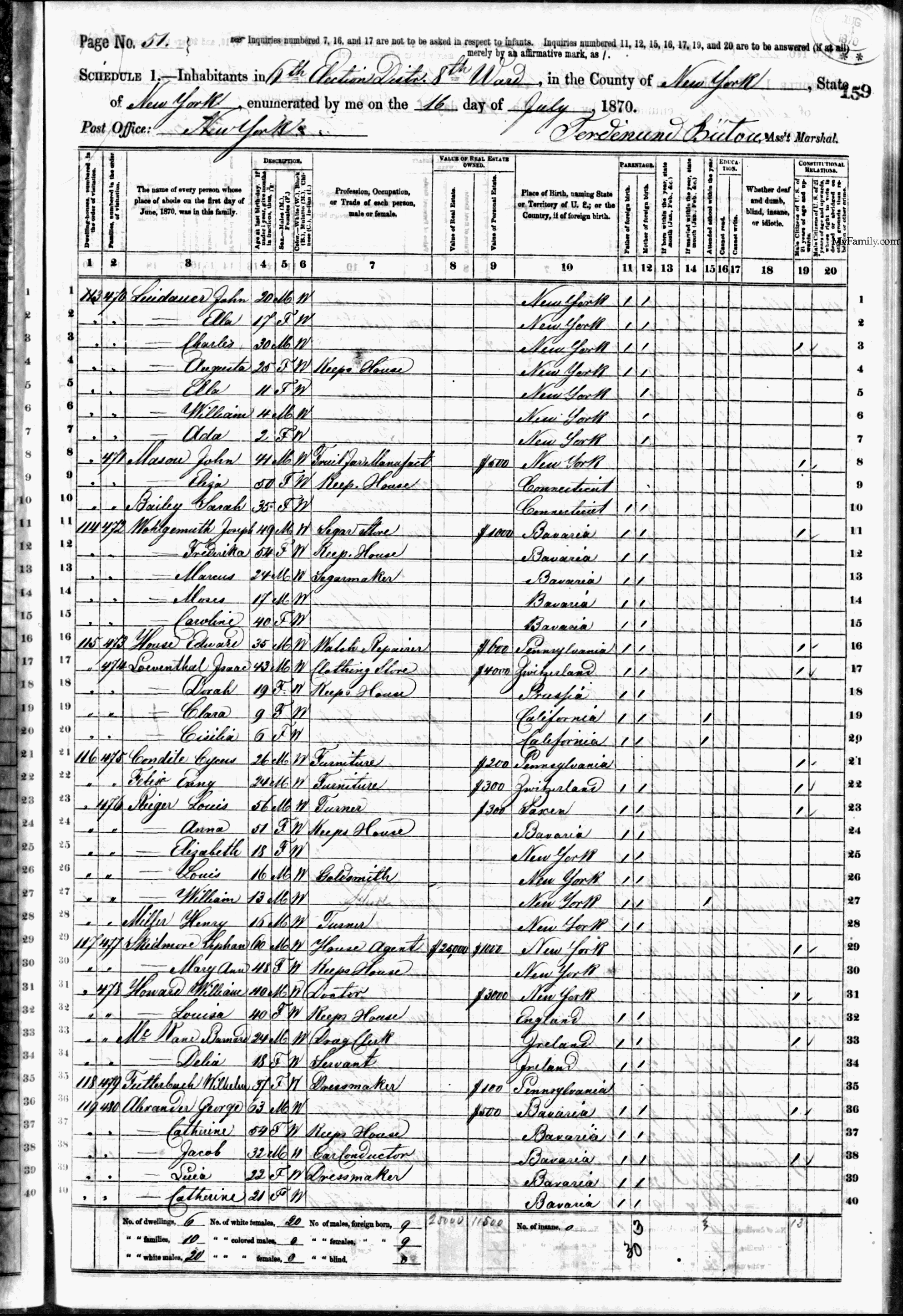 New York, New York County, Roll 981 Book 1, Page 159a, 6th Election District, 8th Ward, Image 31/38 Manhattan, New York City, New York County, New York, USA July 16, 1870 Contents 1 Household 2 Interpretation 3 Notes 4 Source 5 Licensing 6 Original upload log Household Sophia Lindauer, age 45, b. Prussia Louis Lindauer, age 25 John Lindauer, age 20 Ella Lindauer, age 17 Charles Lindauer, age 30 Augusta Lindauer, age 25 Ella Lindauer, age 11 William Lindauer, age 4 Ada Lindauer, age 2 Interpretation Sophia Weber widow of Oscar Arthur Moritz Lindauer (1815-1866) Louis Julius Lindauer child of Oscar Arthur Moritz Lindauer and Sophia Weber John Jacob Lindauer child of Oscar Arthur Moritz Lindauer and Sophia Weber Eloise Lindauer I child of Oscar Arthur Moritz Lindauer and Sophia Weber Charles Frederick Lindauer I child of Oscar Arthur Moritz Lindauer and Sophia Weber Anna Augusta Kershaw wife of Charles Frederick Lindauer Eloise Lindauer II child of Charles Frederick Lindauer and Anna Augusta Kershaw William Lindauer (1866-c1870) child of Charles Frederick Lindauer and Anna Augusta Kershaw Ada Lindauer I (1868-bef1900) child of Charles Frederick Lindauer and Anna Augusta Kershaw Notes Note: Sophia Weber would be born in 1825 if she was 45 in 1870 Note: Anna Augusta Kershaw (1841-1931) is written and indexed as "Augusta Lindauer" Record found and transcribed by Richard Arthur Norton (1958- ) on July 28, 2003 Source: US Census, New York, 1870 Source US Census, New York, 1870